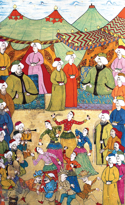 The Surname-I Hümayun (Imperial Festival Book) were albums that commemorated celebrations in the Ottoman Empire in pictorial and textual detail. Here, musicians and dancers entertain the crowds, found in the Surname of 1720.